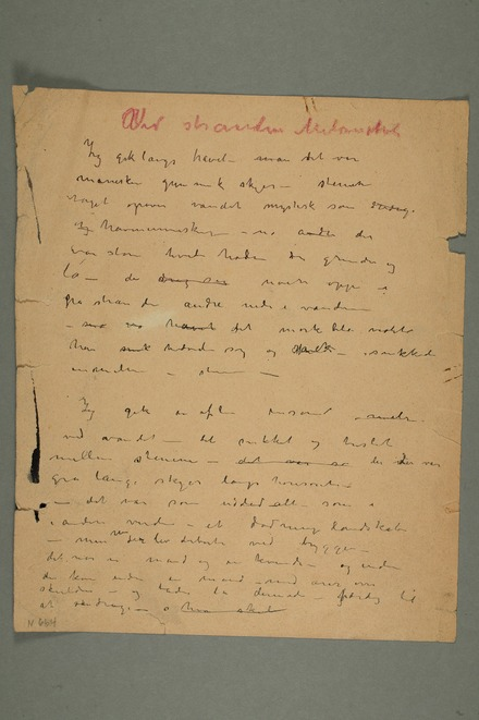 Part one (recto) of undated note or 'prose poetry' by the norwegian painter Edvard Munch (1863-1944) on 'melancholia' – Writing paper, 237×194 mm The text in norwegian: Part two: File:Munch_Note_on_Melancholia_Part_two_No-MM_N0664-00-01v.jpg